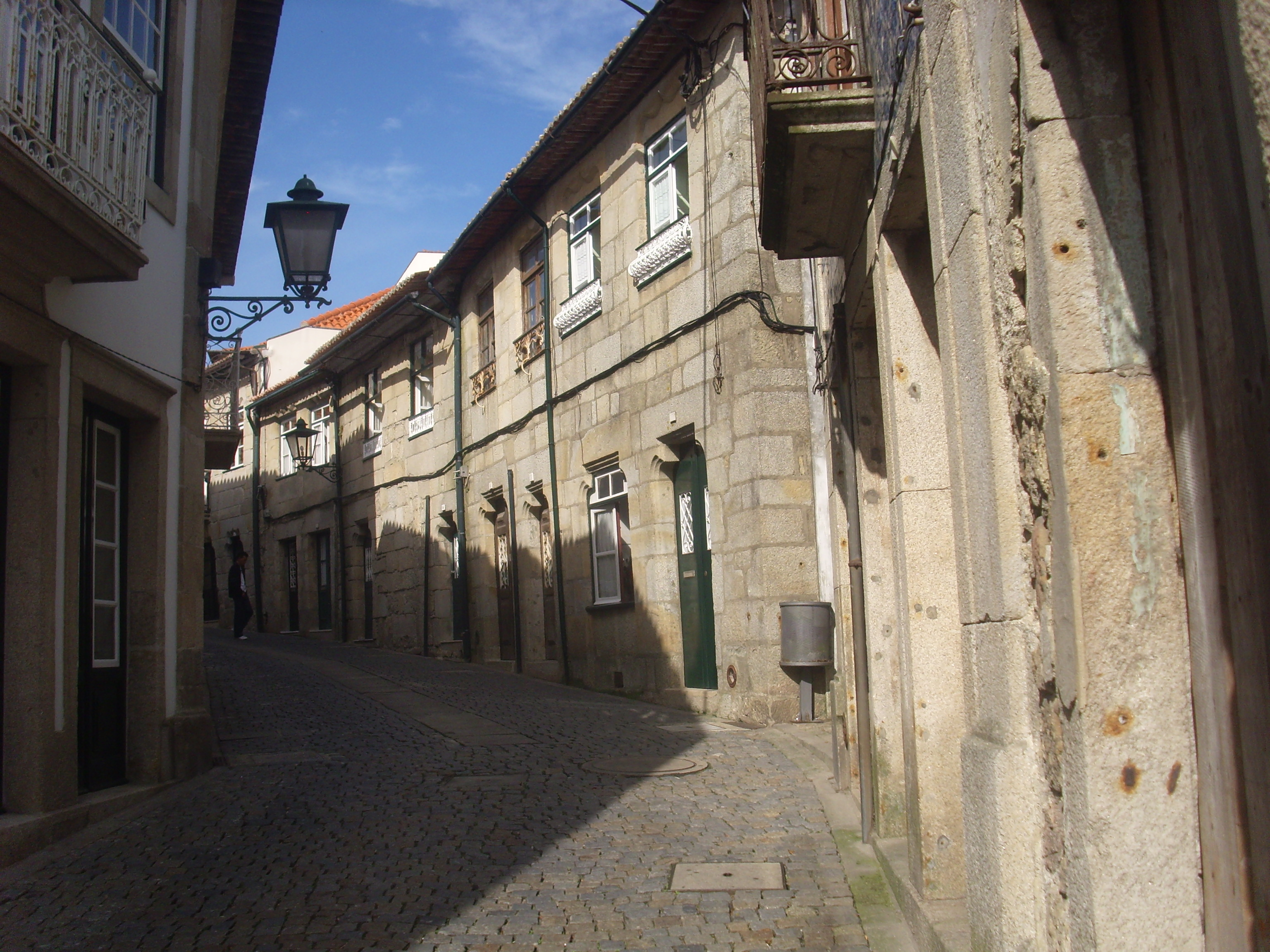 16th century Rua da Igreja street in Vila do Conde